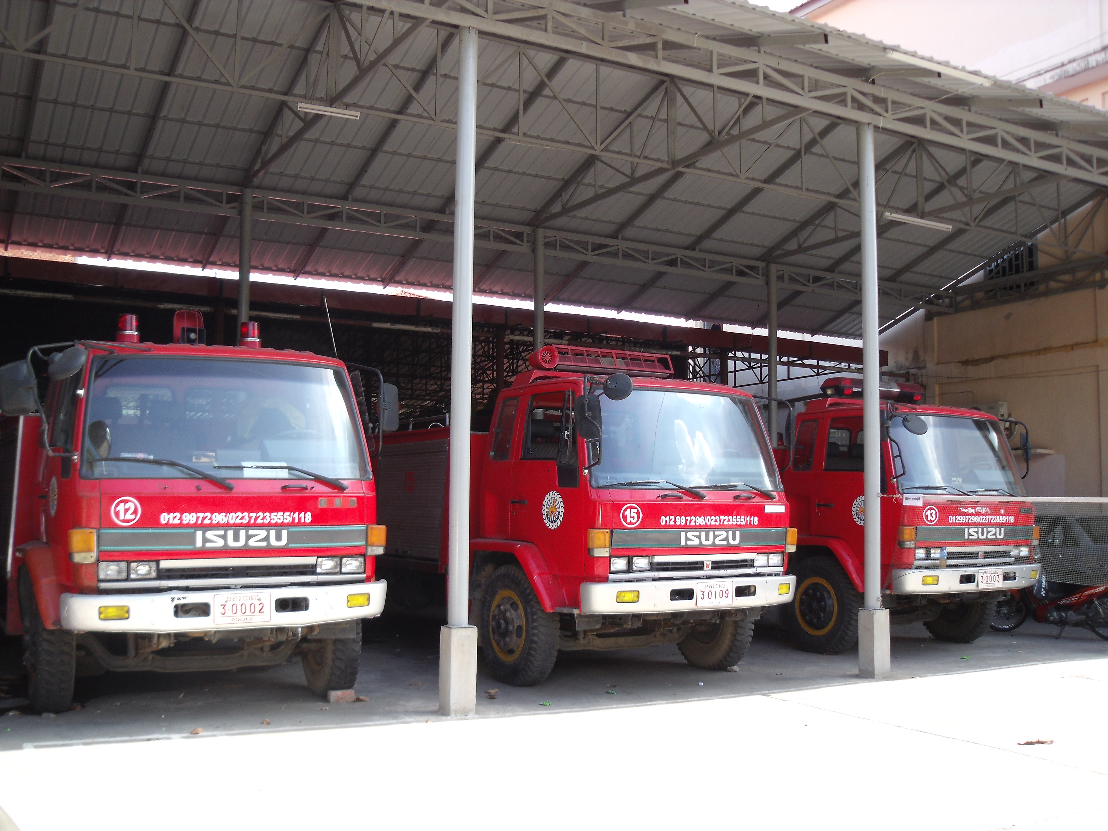 Fire station on the street 310, Phnom Penh, Cambodia.